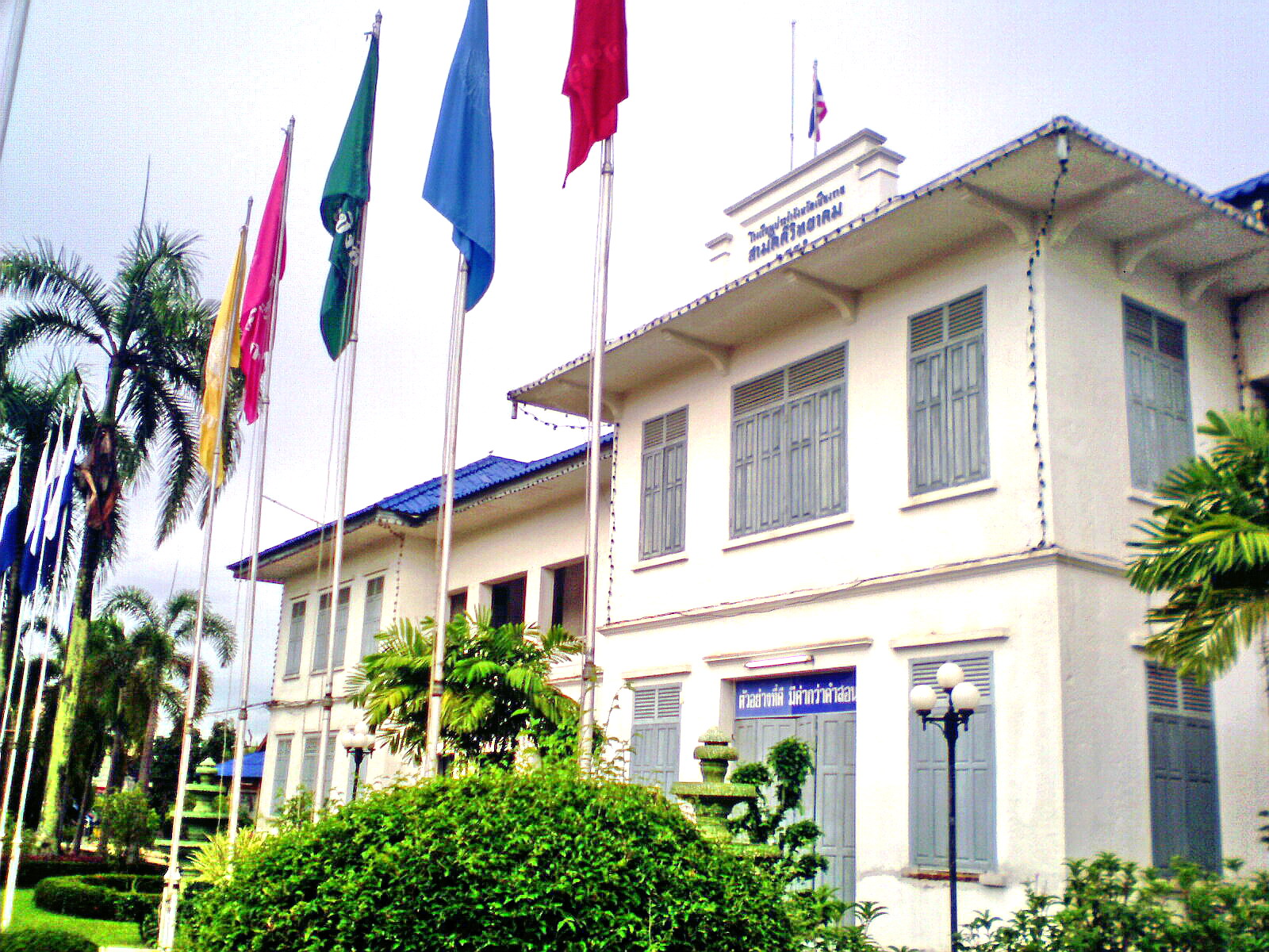 Chief Building of Samakkhi Witthayakhom School.